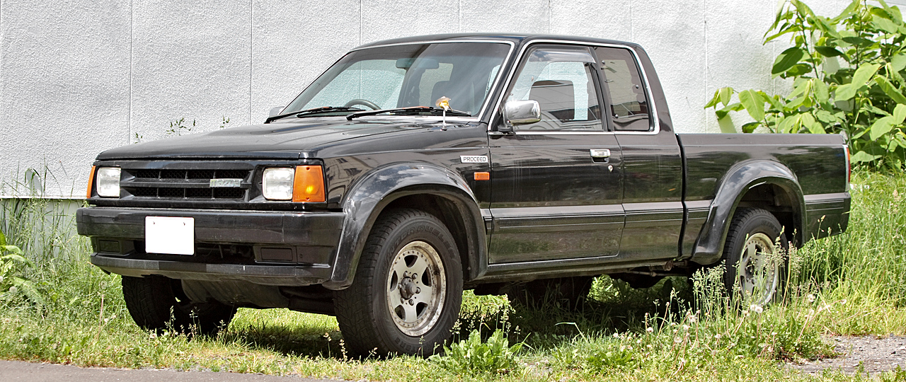 Mazda Proceed 4WD 2.6